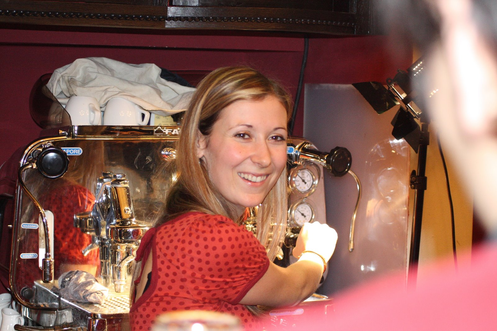 Czech barista Petra Veselá, Mistr Kávy ČR 2005, 2007 preparing coffee.